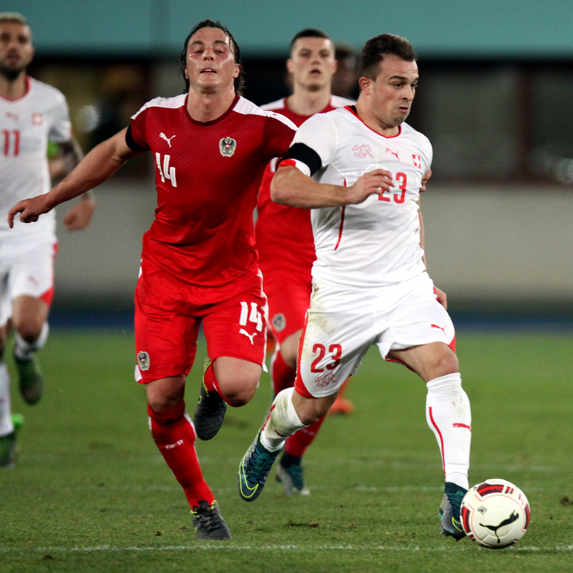 Friendly match – Austria (red shirts) vs. Switzerland (white shirts) 1-2 (1-2) – 2015-11-17 in Vienna, Ernst-Happel-Stadion – The photo shows Xherdan Shaqiri (right) and Julian Baumgartlinger (left).